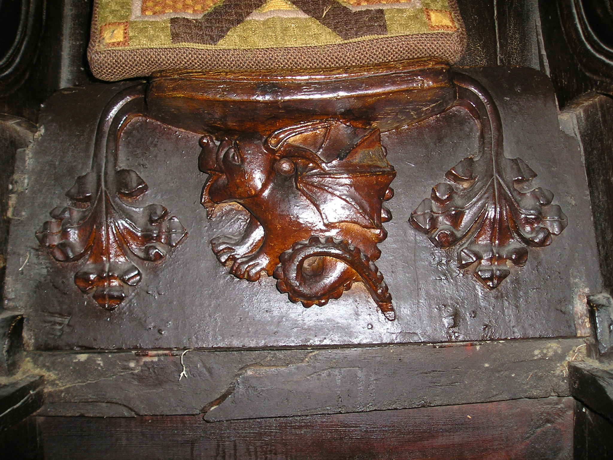 Great Malvern Priory, Herefordshire: misericord depicting a wyvern